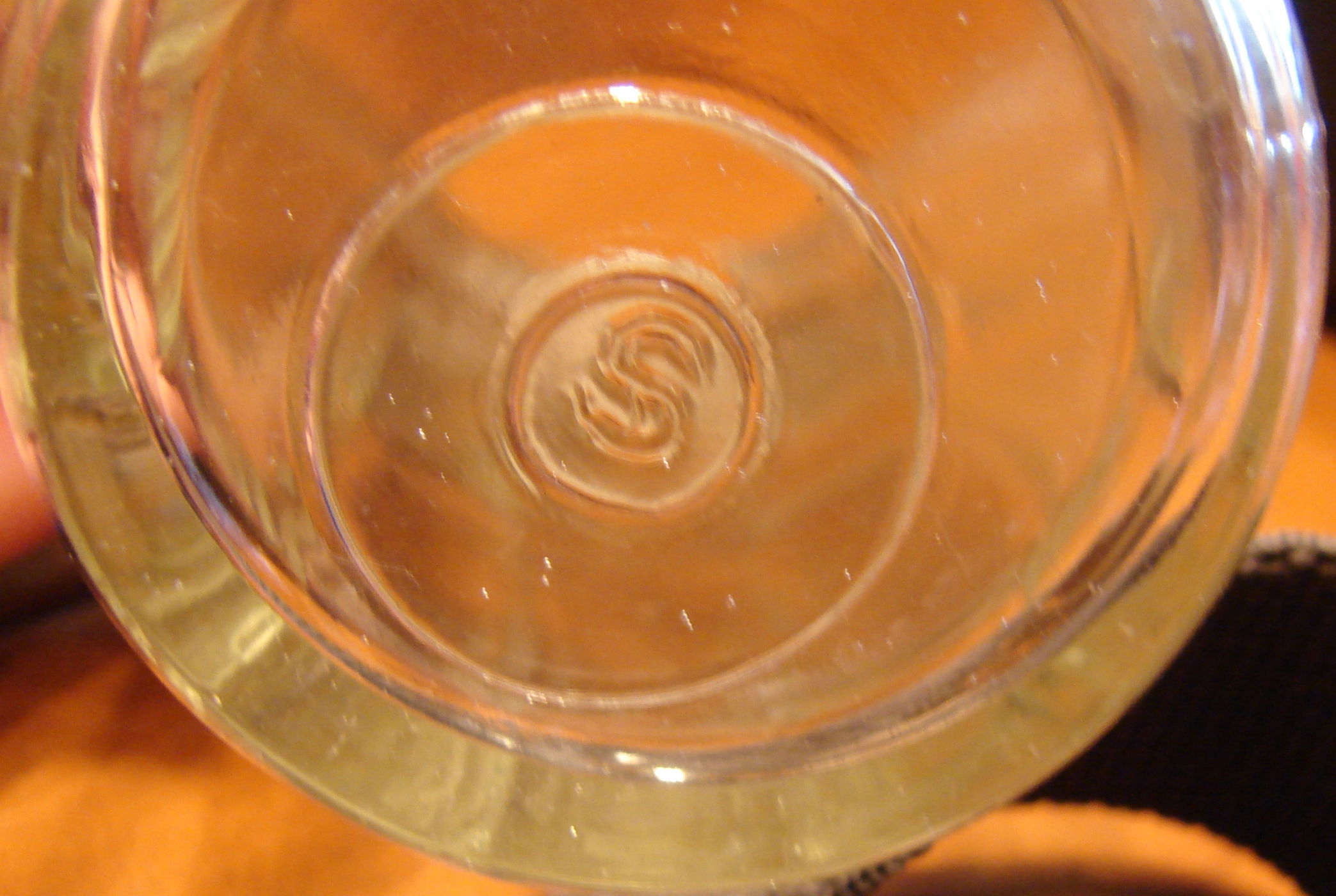 The "S" mark as found on the bottom of a spice jar made by Sneath Glass Company. The spice jar was probably made in the 1920s, and is owned by a collector.